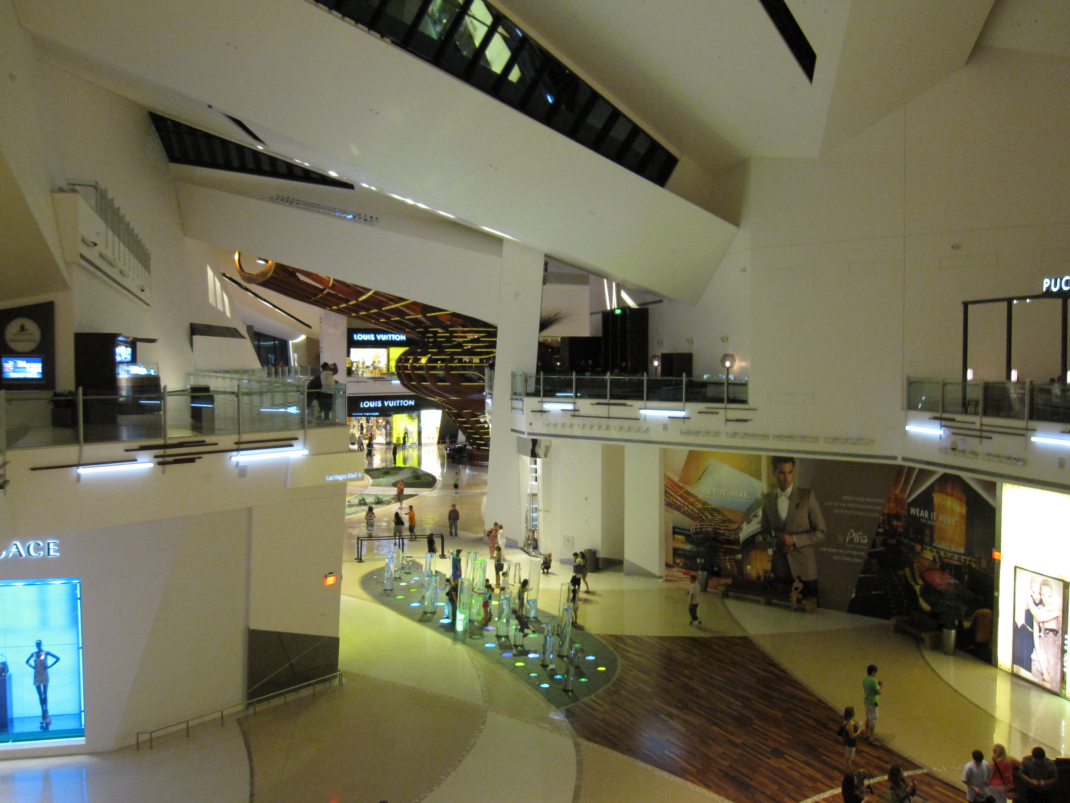 Shop in the The Crystals in Las Vegas